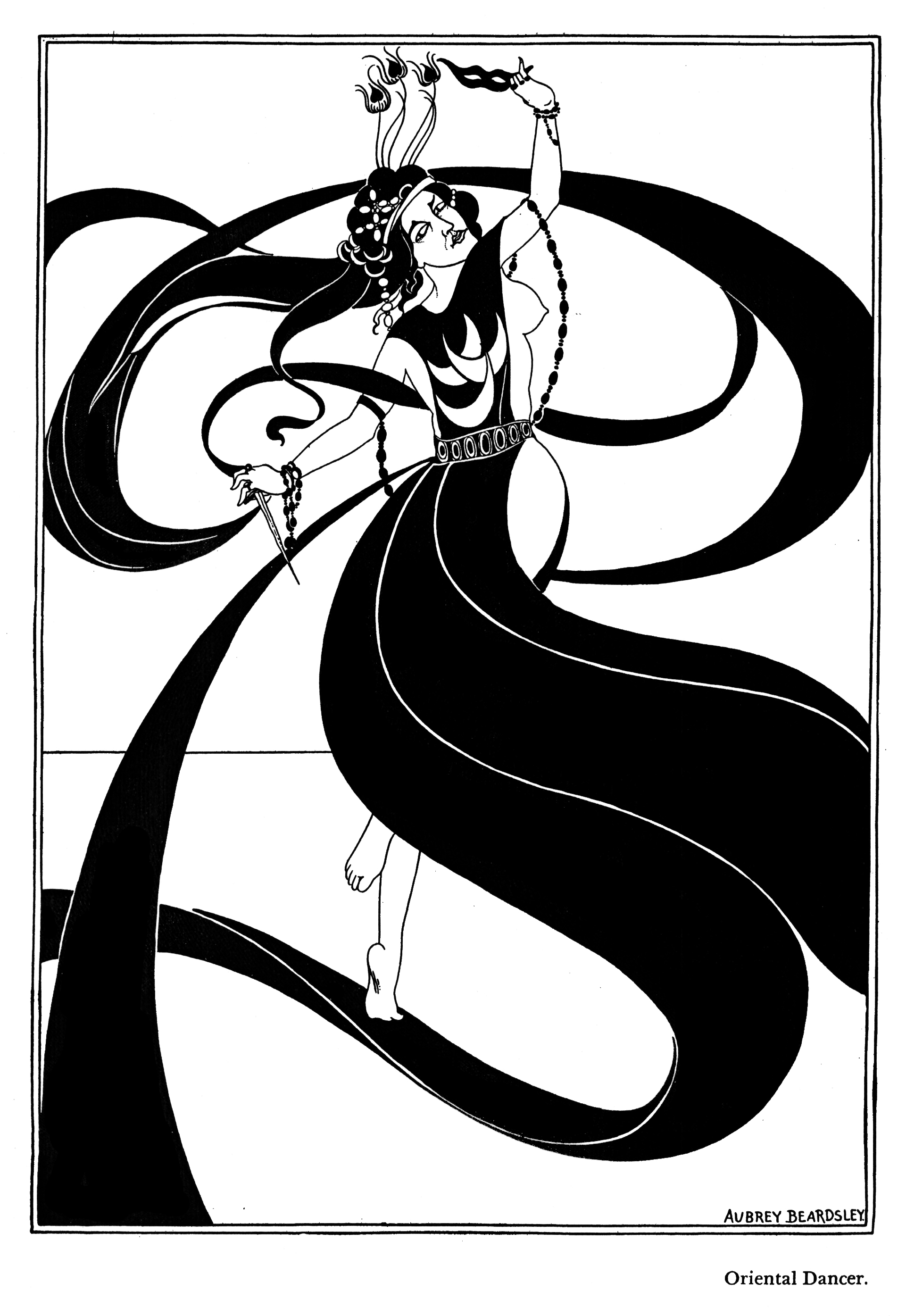 Forgery wrongly attributed to Aubrey Beardsley (